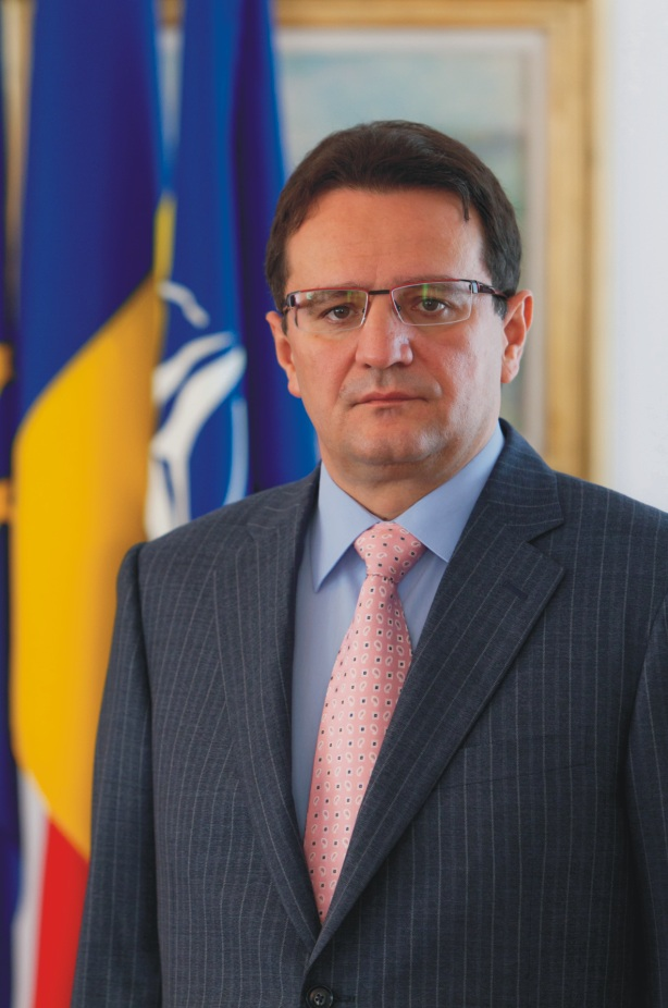 The director of the Romanian Intelligence Service (SRI)